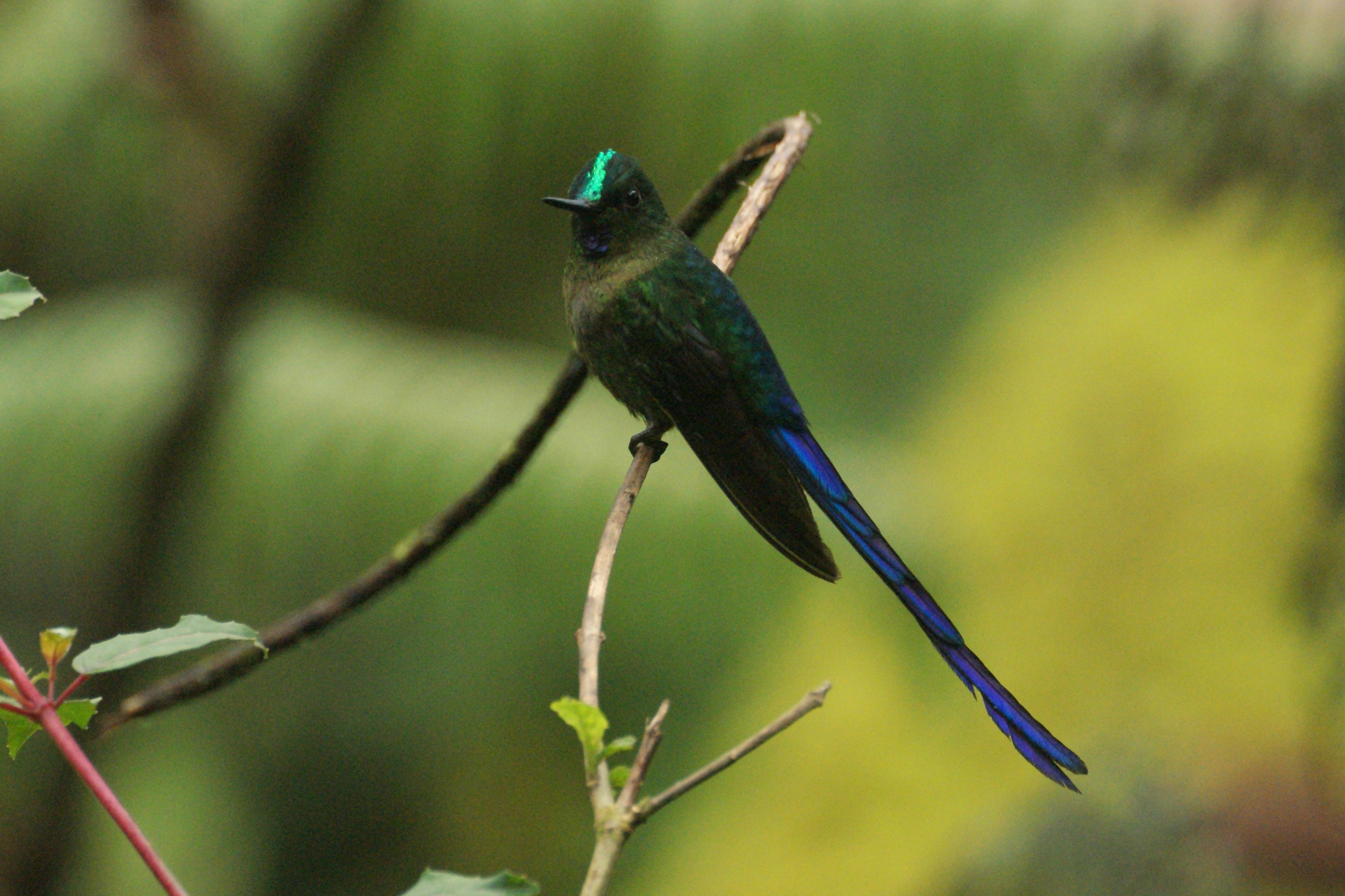 The Birds of Ecuador